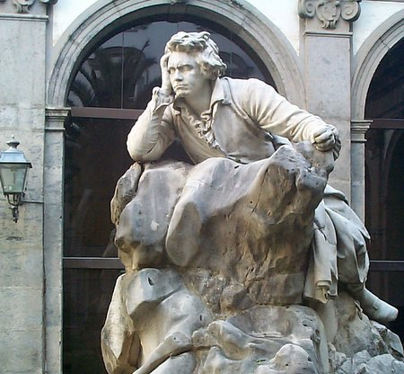 Private photo that I took, myself.